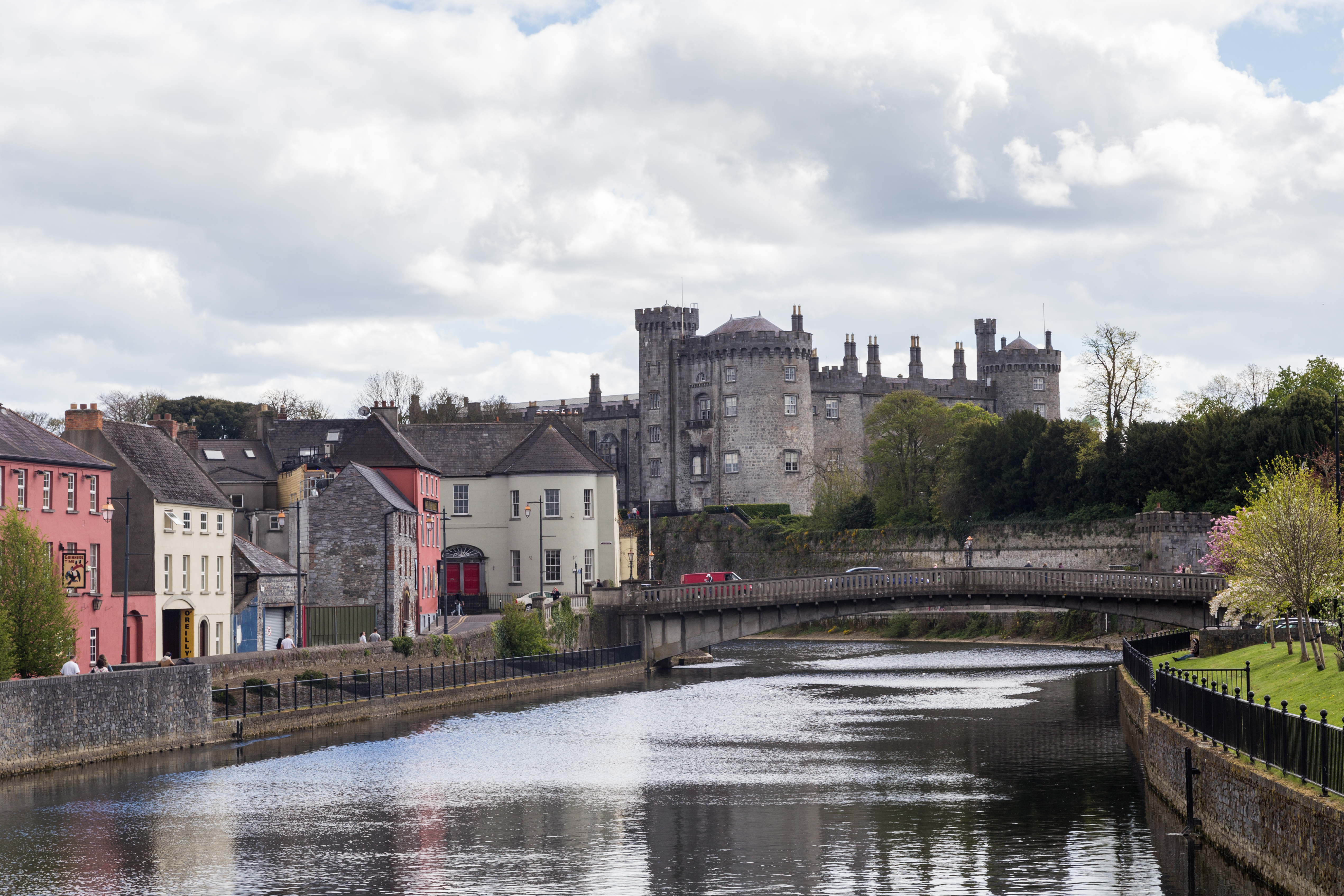 Kilkenny Castle as seen from town